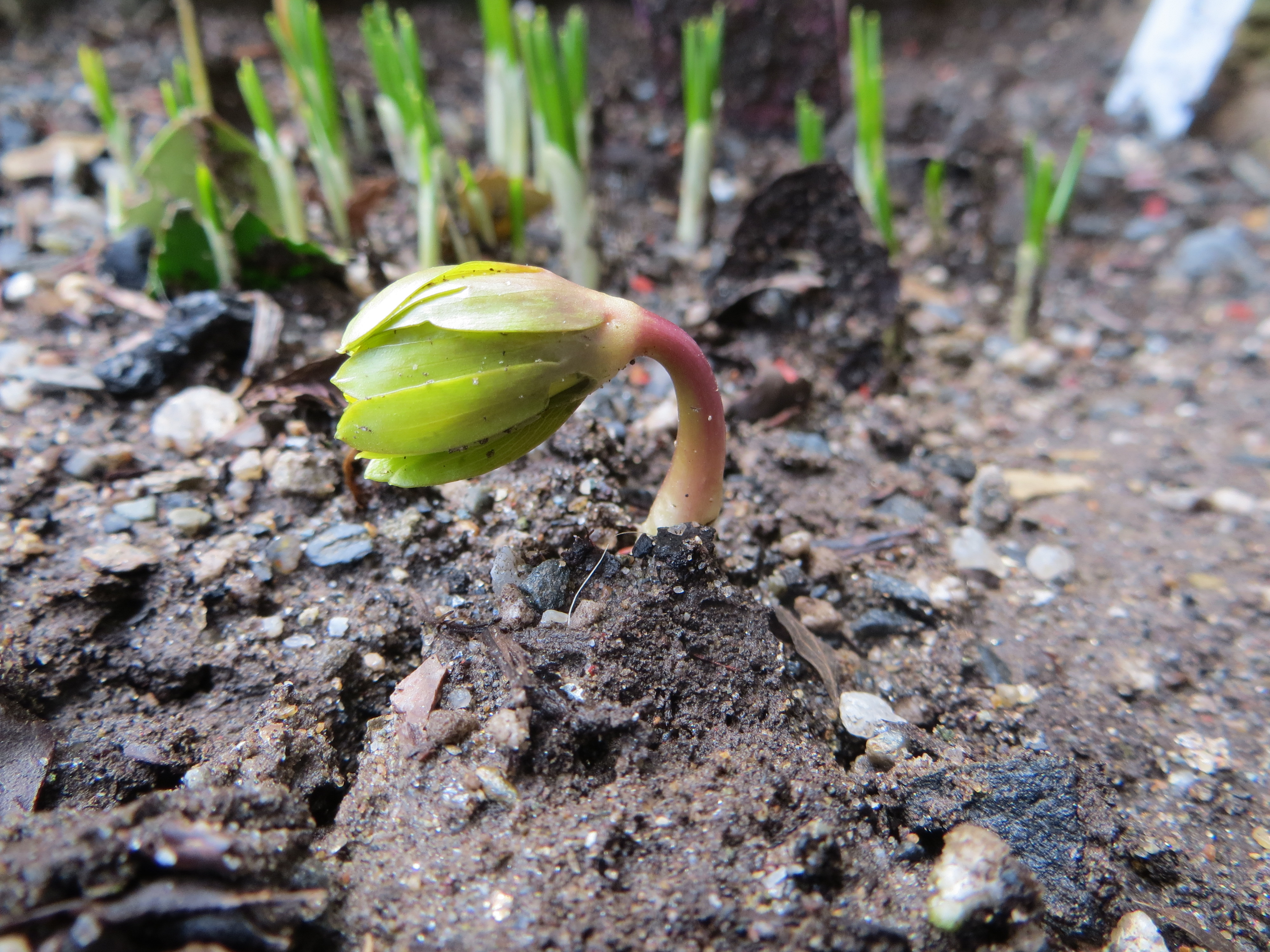 Unfolding shoot of Eranthis hyemalis, early spring